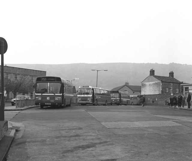 Otley bus station, Yorkshire. Otley Chevin is the backdrop in this photograph in which all the buses seen belong to the West Yorkshire Road Car company.